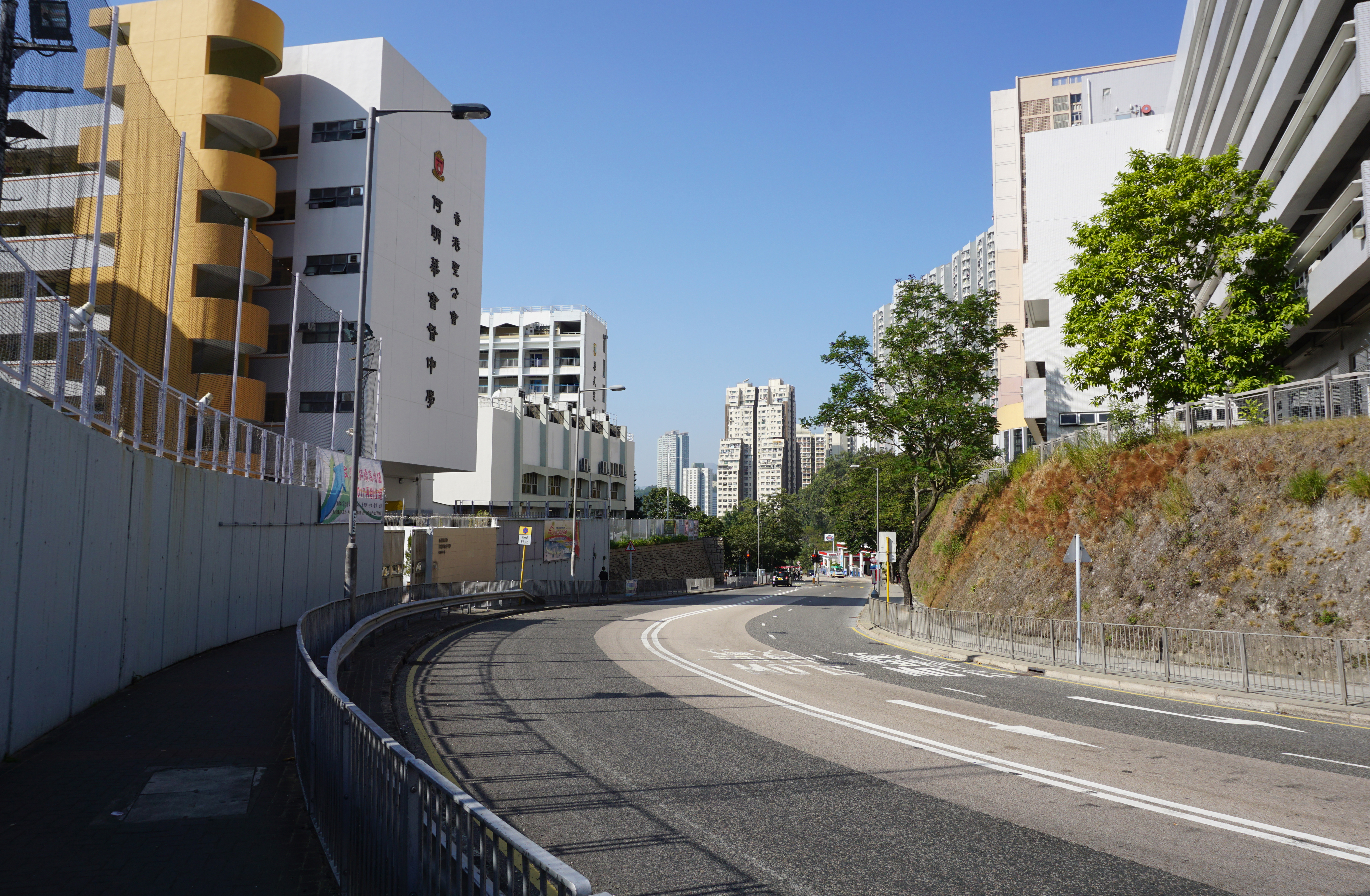 Hiu Kwong Street in Sau Mau Ping, Hong Kong.